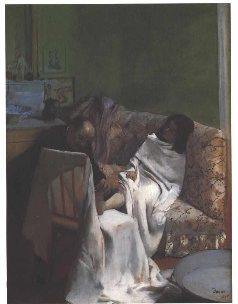 Pedicure